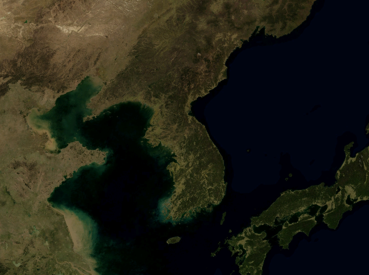 Satellite image of Korean Peninsula